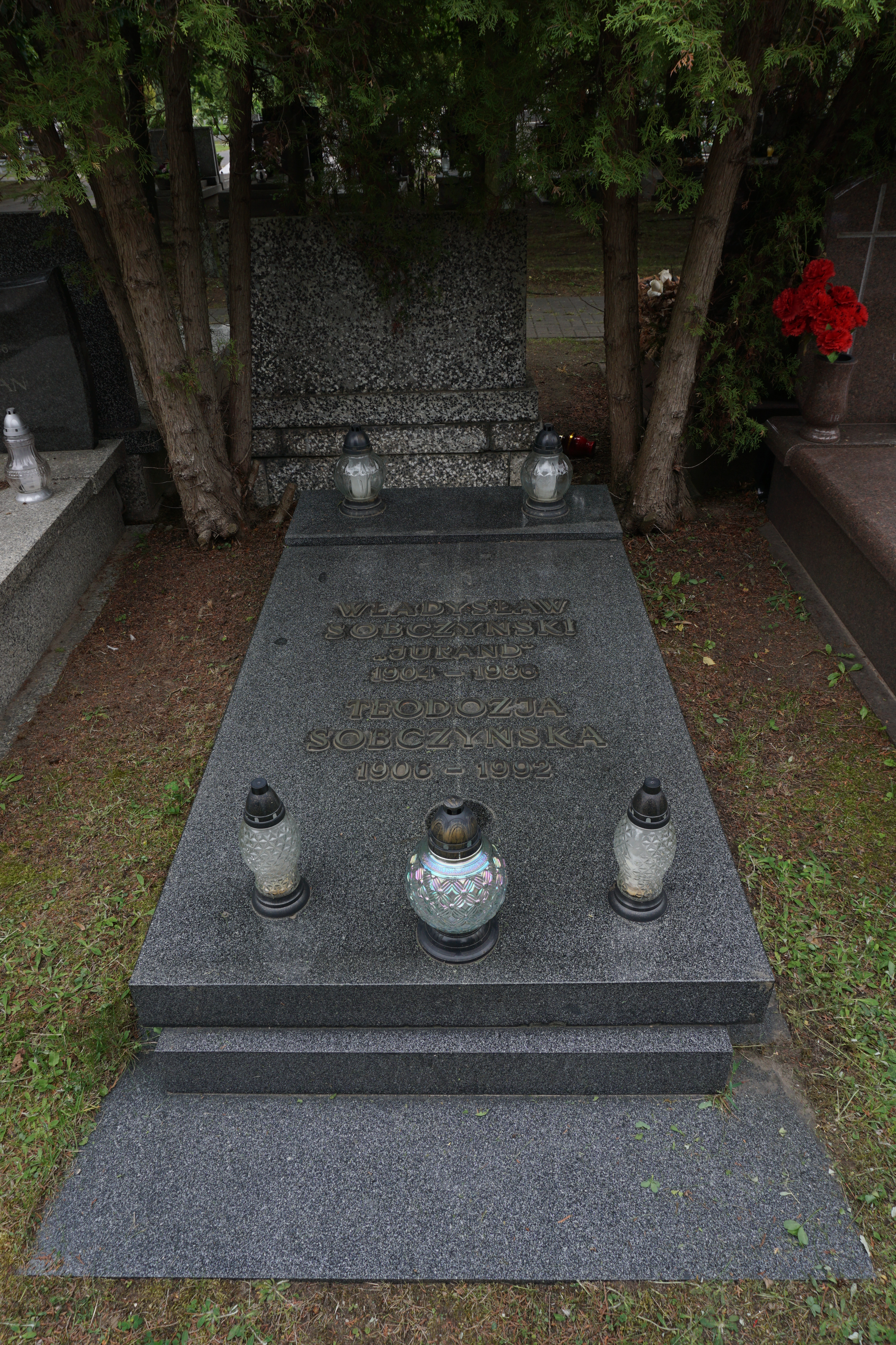 The grave of Władysław Spychaj-Sobczyński at the North Municipal Cemetery in Warsaw (section E-VI-1, row 4, grave 4)